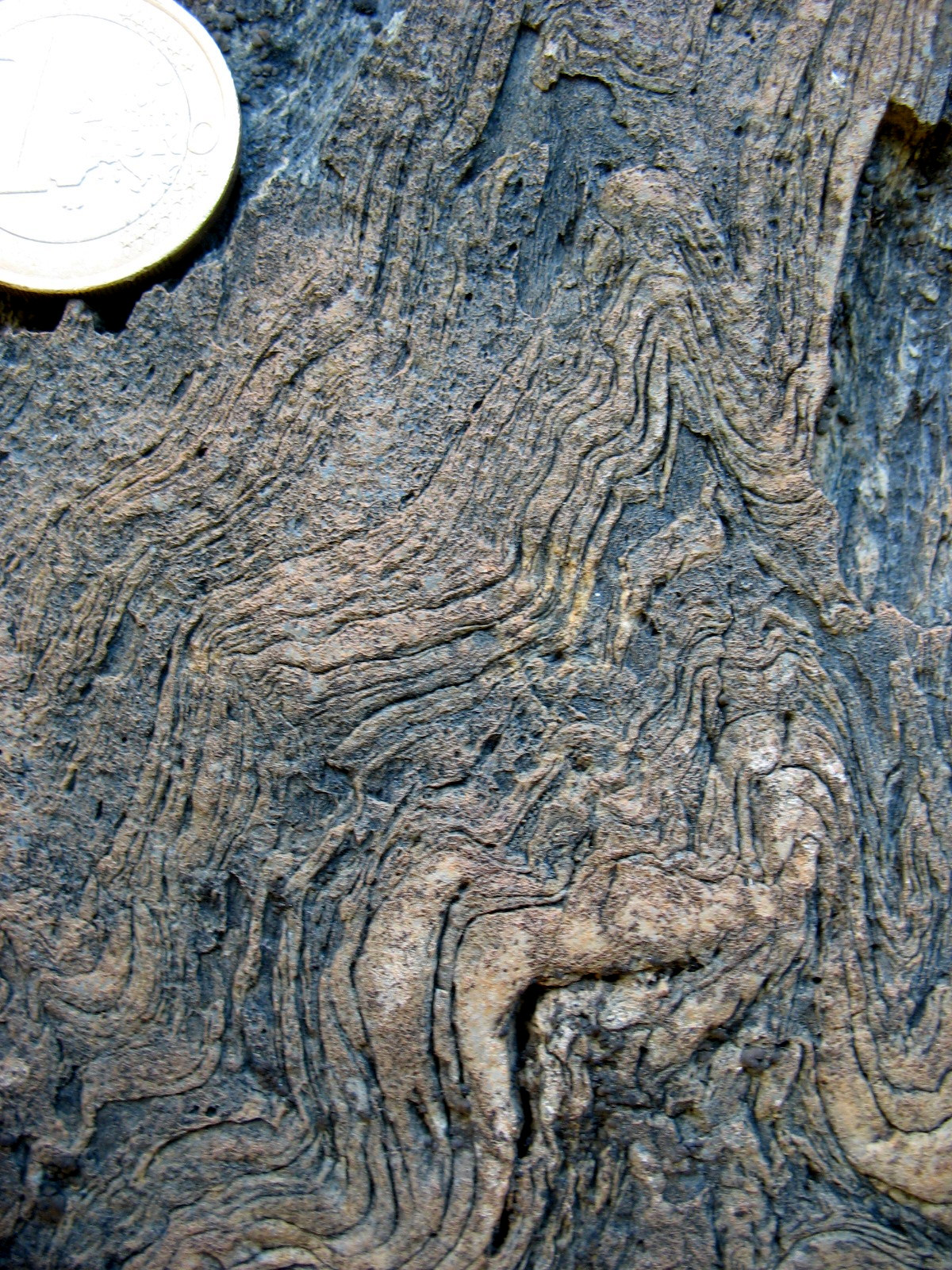 Outcrop of deformed rocks during the variscan orogeny. A microstructural study revealed four phases of deformation. Vall de Cardós, Lérida, Spain.